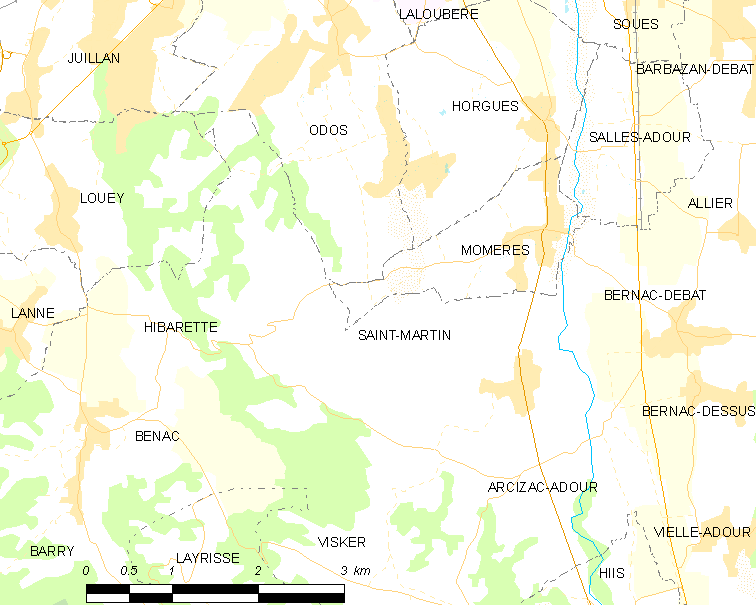 Map of French municipality